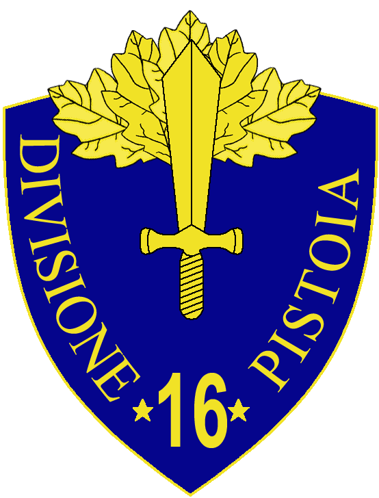 16a Divisione Fanteria Pistoia insignia, Regio Esercito, Italy, WWII